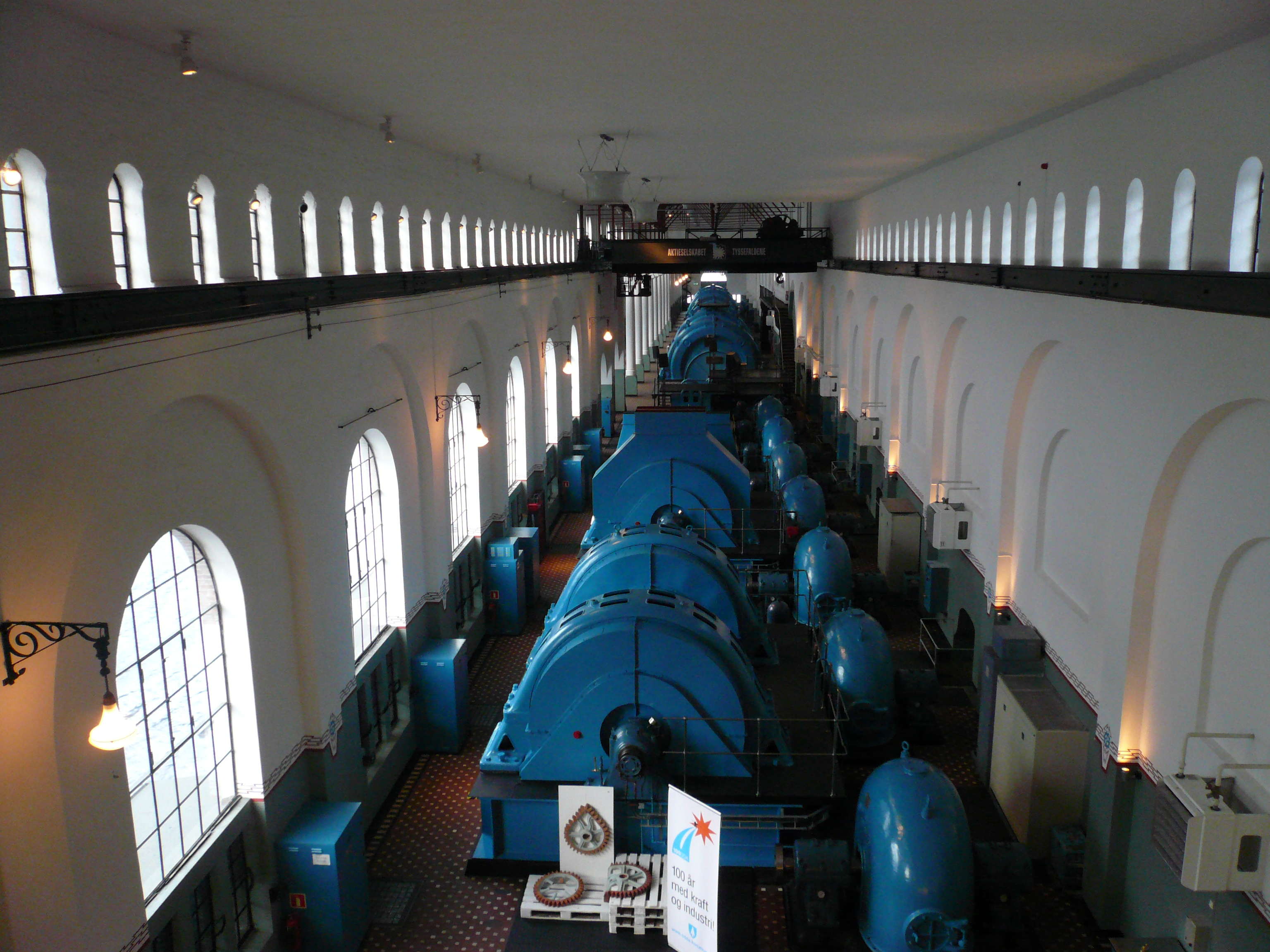 Tyssedal hydroelectric powerplant, interior